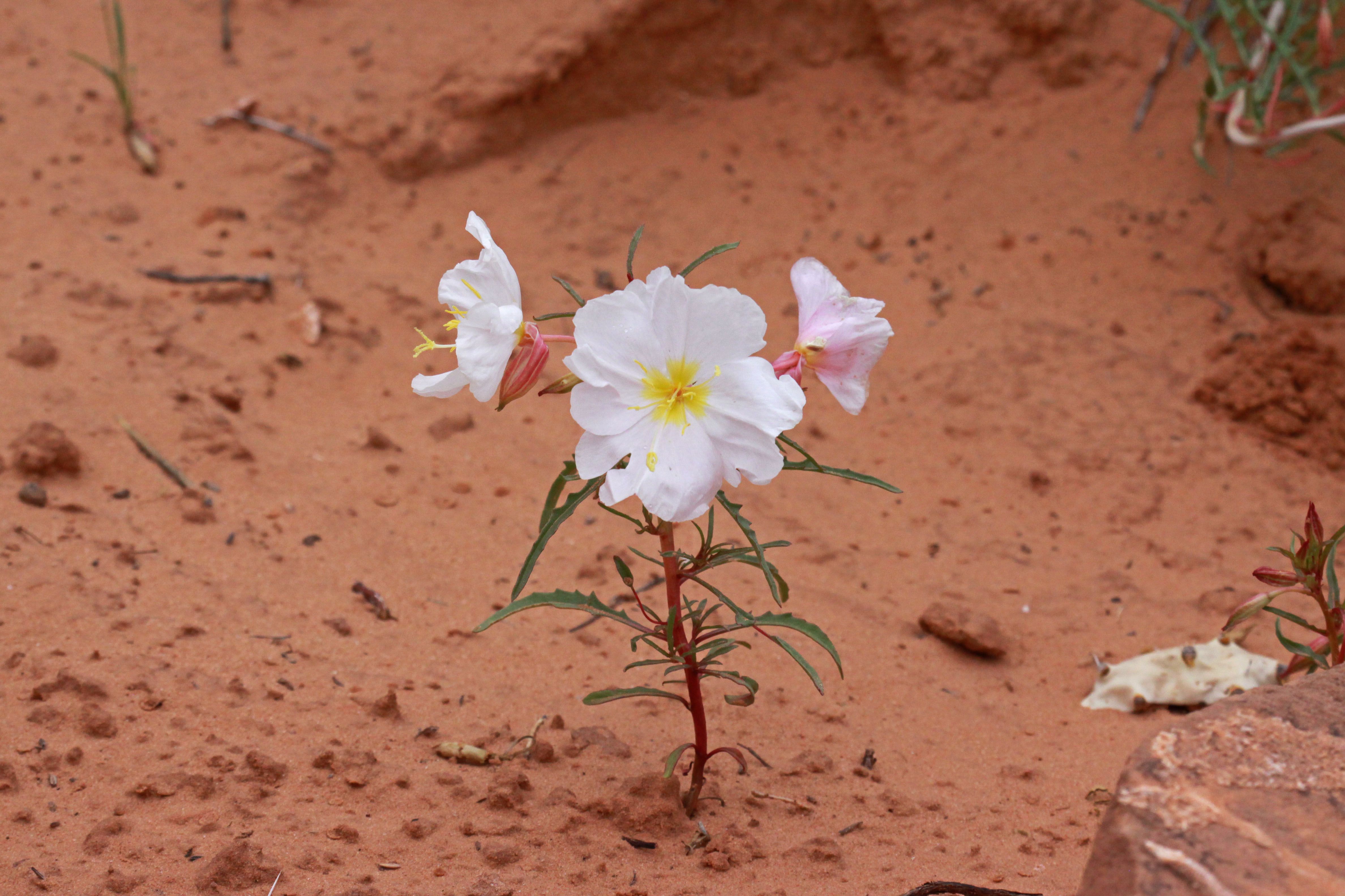 Whitest evening primrose (Oenothera albicaulis), Evening Primrose family (Onagraceae). Windows Trail, Arches Natl. Park, Utah.